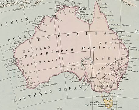 Map of Australia